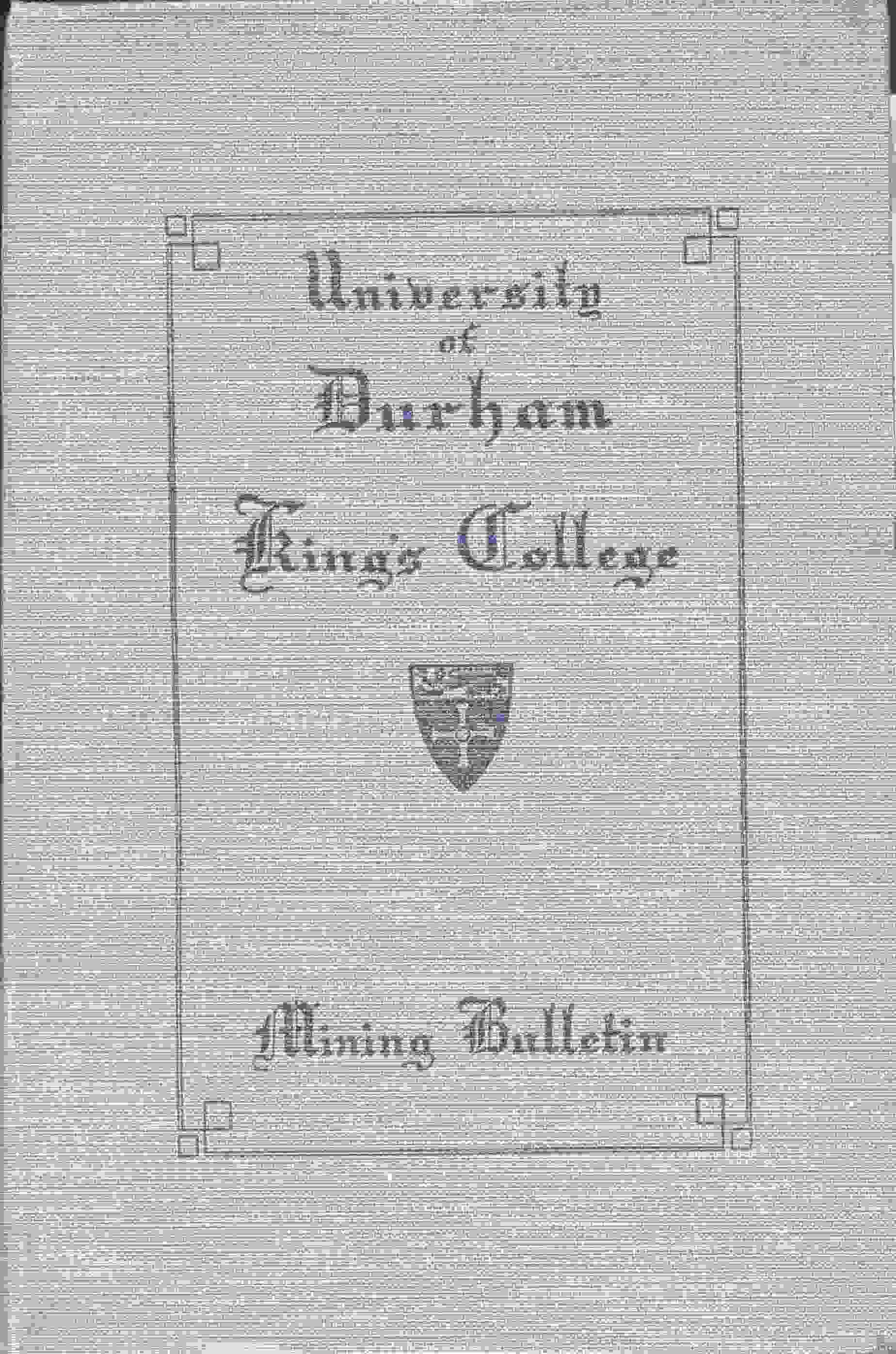 View the document at The North of England Institute of Mining and Mechanical Engineers; 622.33 UNI University of Durham King's College Mining Bulletin